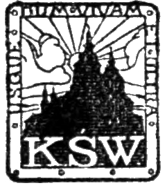 Logo of Ksiegarnia sw. Wojciecha Poznan.